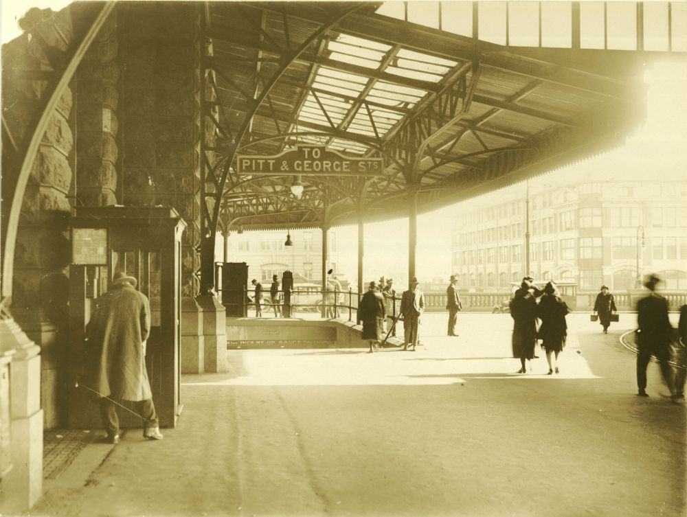 Entrance to colonnade steps at Central Railway Station, Sydney Dated: by 31/12/1924 Digital ID: 17420_a014_a014000278 Rights: We'd love to hear from you if you use our photos. Many other photos in our collection are available to view and browse on our website using Photo Investigator.